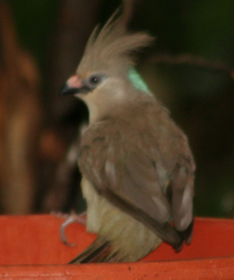 Urocolius macrourus, Vogelpark Walsrode